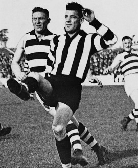 Photograph of Jack Knight in 1938